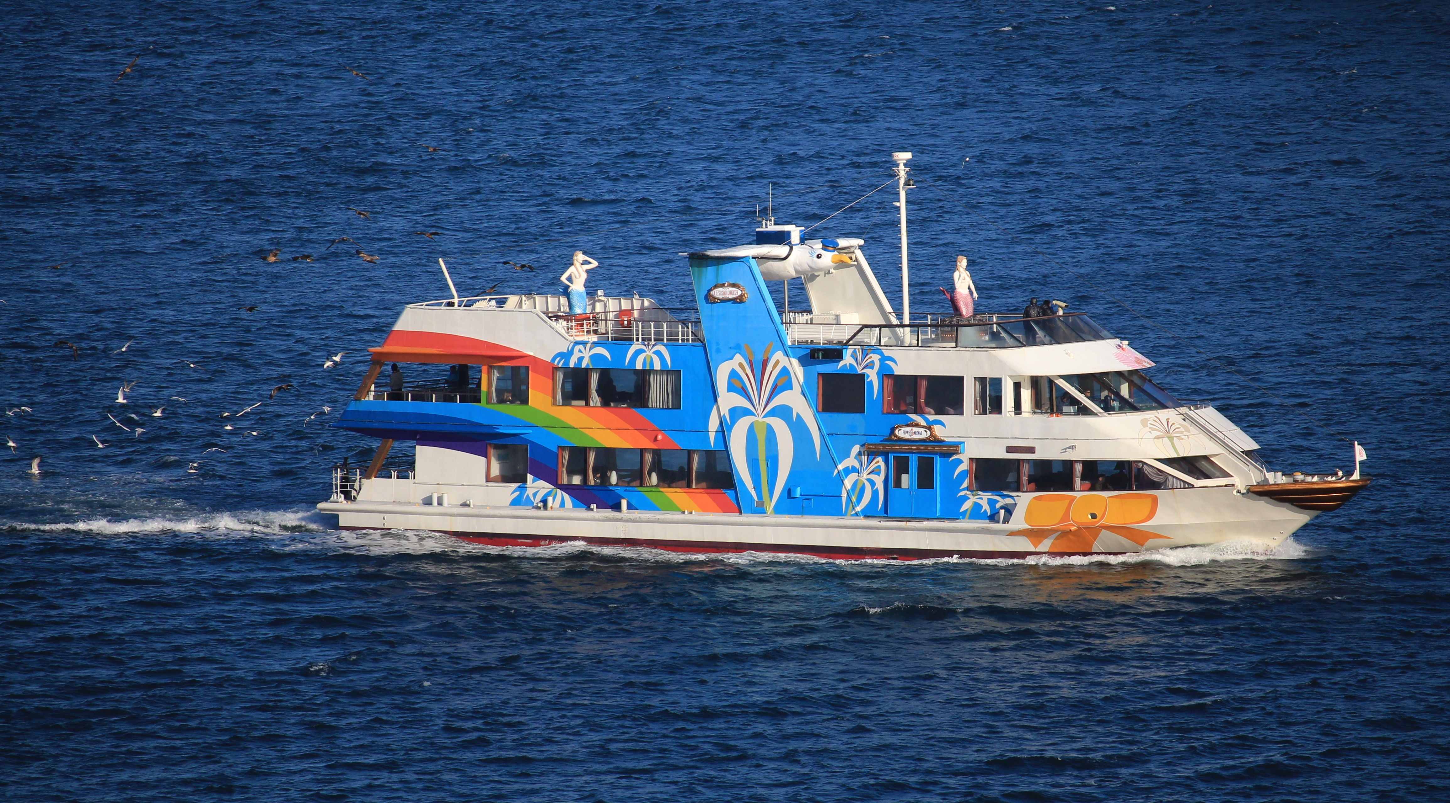 Flower Mermaid (ship, 1996) of Shima Marine Leisure in Toba Bay, Mie prefecture, Japan.